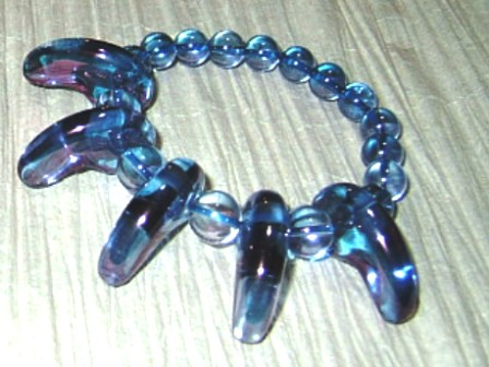 Talon of dragon that made it from Cosmo aura